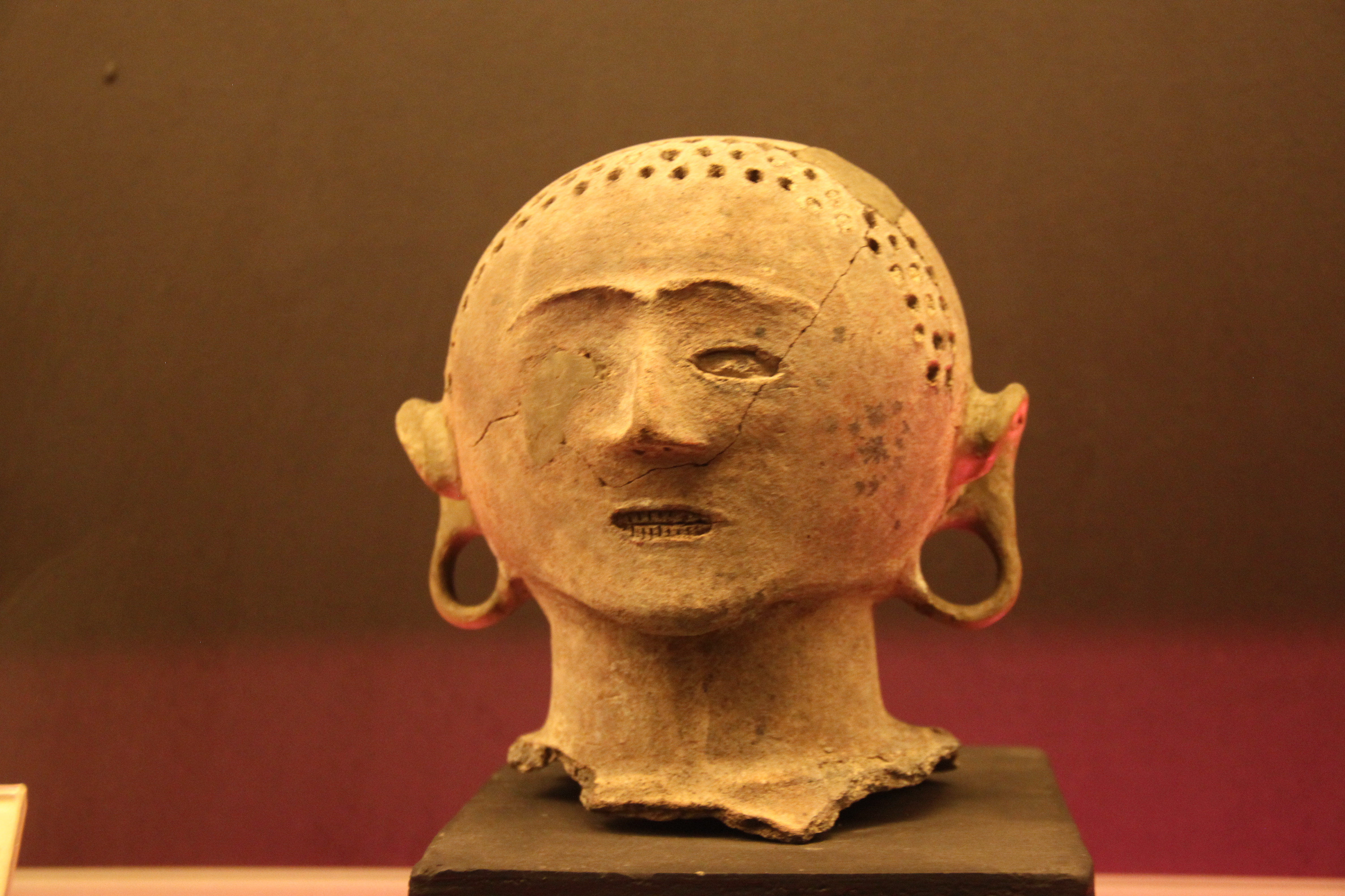 Mindanao Metal Age Burial Pottery Gallery, Museum of the Filipino People, Rizal Park, Manila, Philippines. Complete indexed photo collection at .